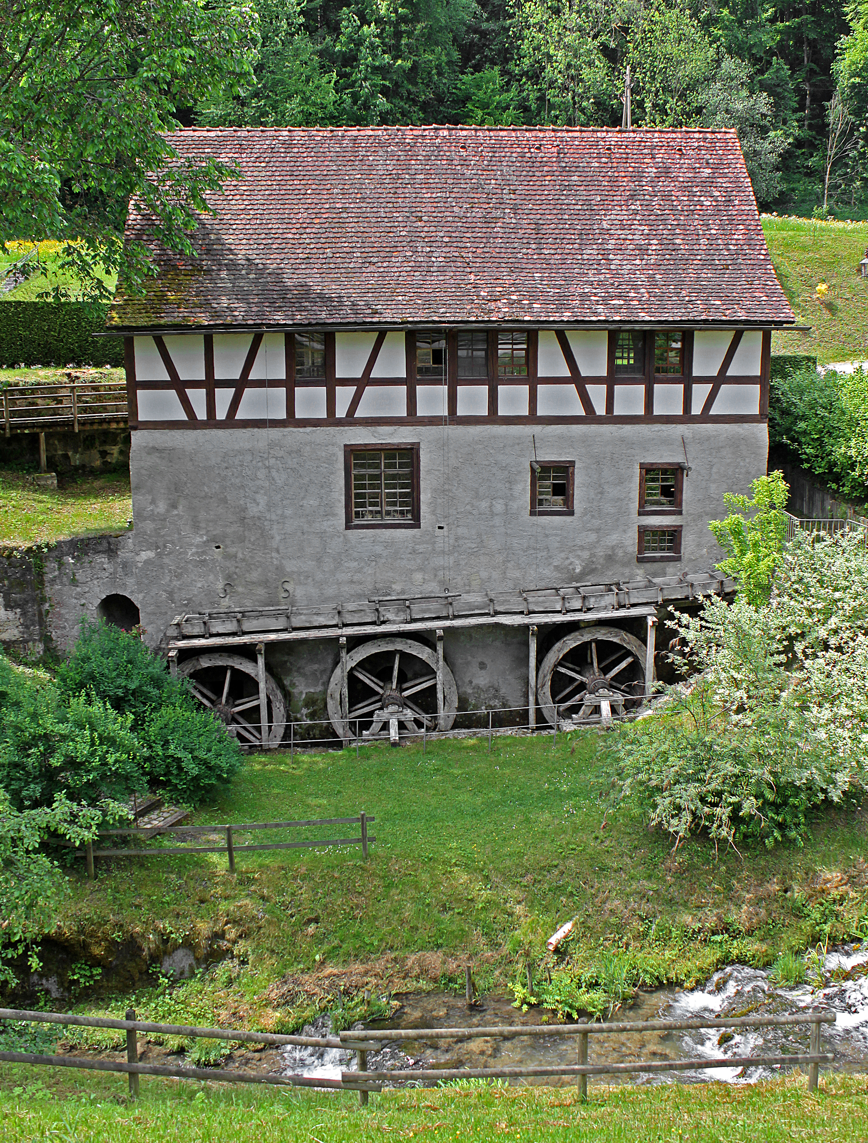 Mühle im Weiler (Mill in the hamlet), Museum, Blumeggweiler, Stühlingen, Germany. This mill is one the oldest and well preserved gypsum-mills in Germany. It is unique in having three mill-wheels and five grinders.